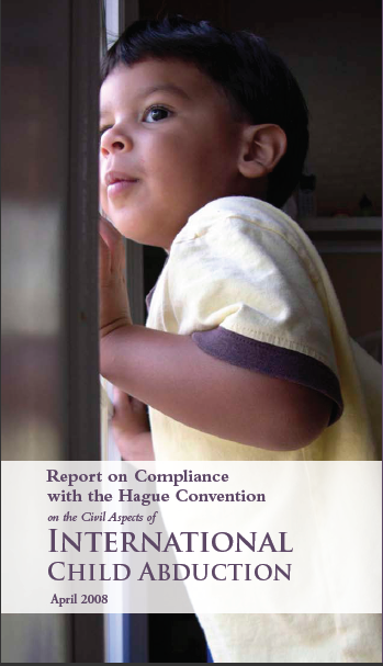 2008 Hague Abduction Convention Compliance Report cover